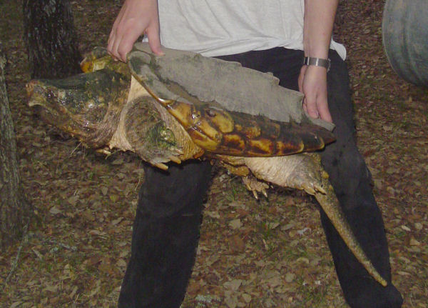 Alligator Snapping Turtle, Macrochelys temminckii